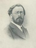 Portrait of Russian writer and ethnologist Ivan Gavrilovich Pryzhov